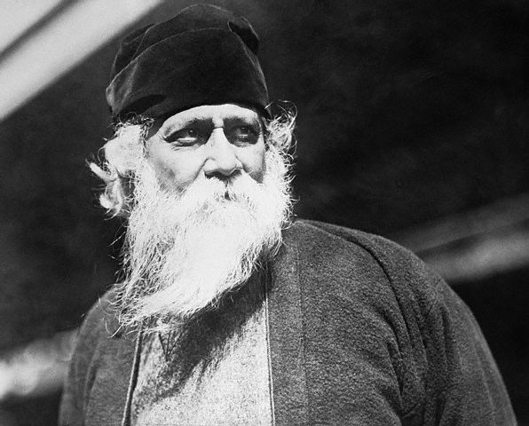 Portrait of Rabindranath Tagore